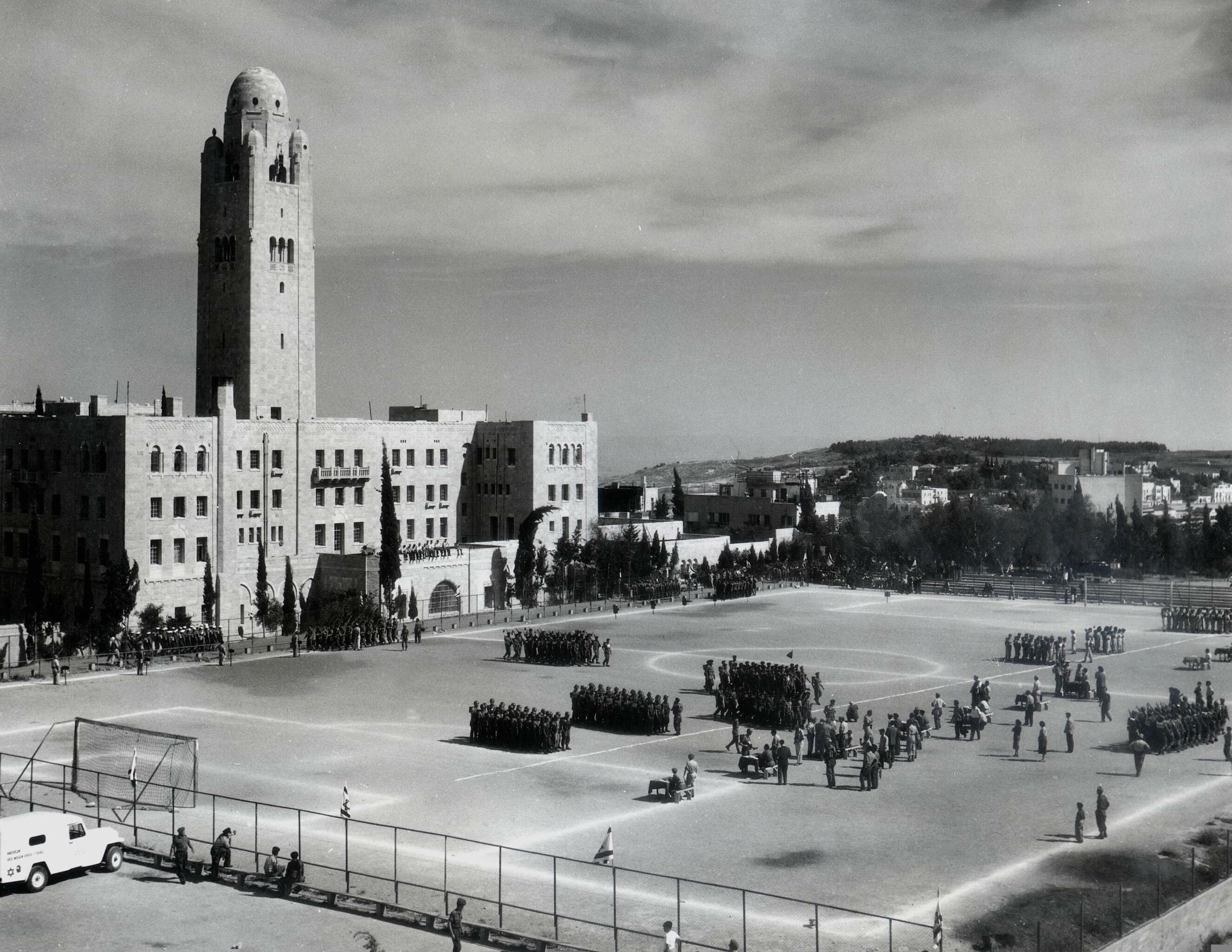 Jerusalem_International_YMCA Stadium 1958 CULMINATION OF THE FOUR DAY MARCH ON THE GROUNDS OF THE Y.M.C.A. IN JERUSALEM.